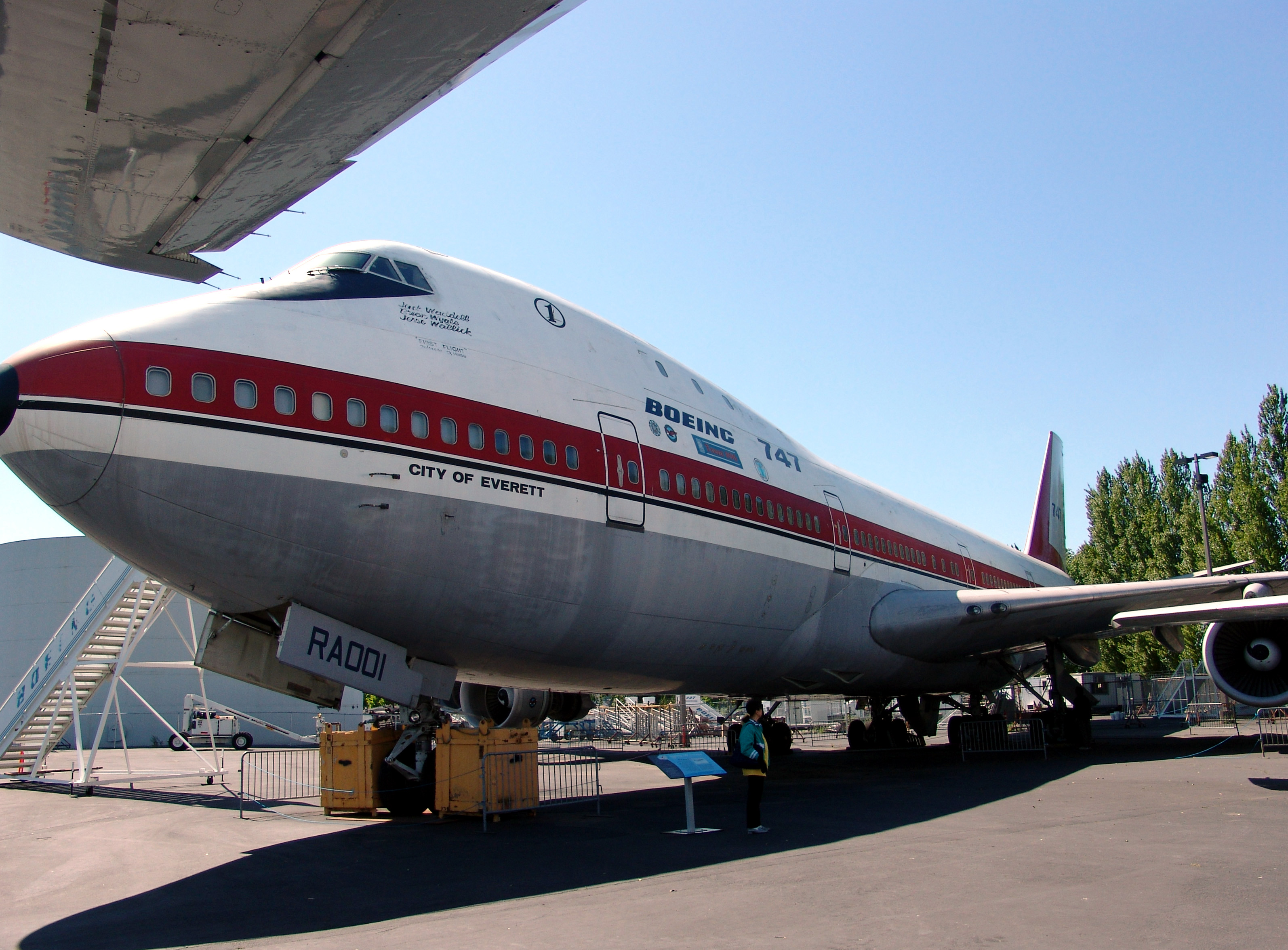 The City of Everett at the Museum of Flight in Seattle